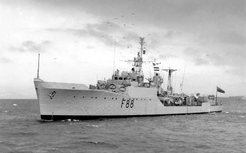 The Royal Navy frigate HMS Malcolm (F88) underway in coastal waters, in 1958.